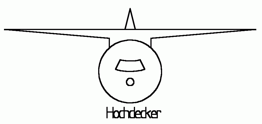 Shoulder-wing aircraft